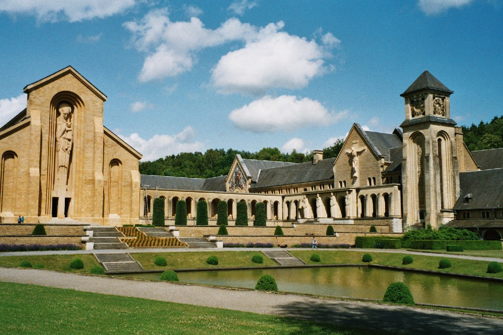 Central view of the new Orval Abbey in Belgium